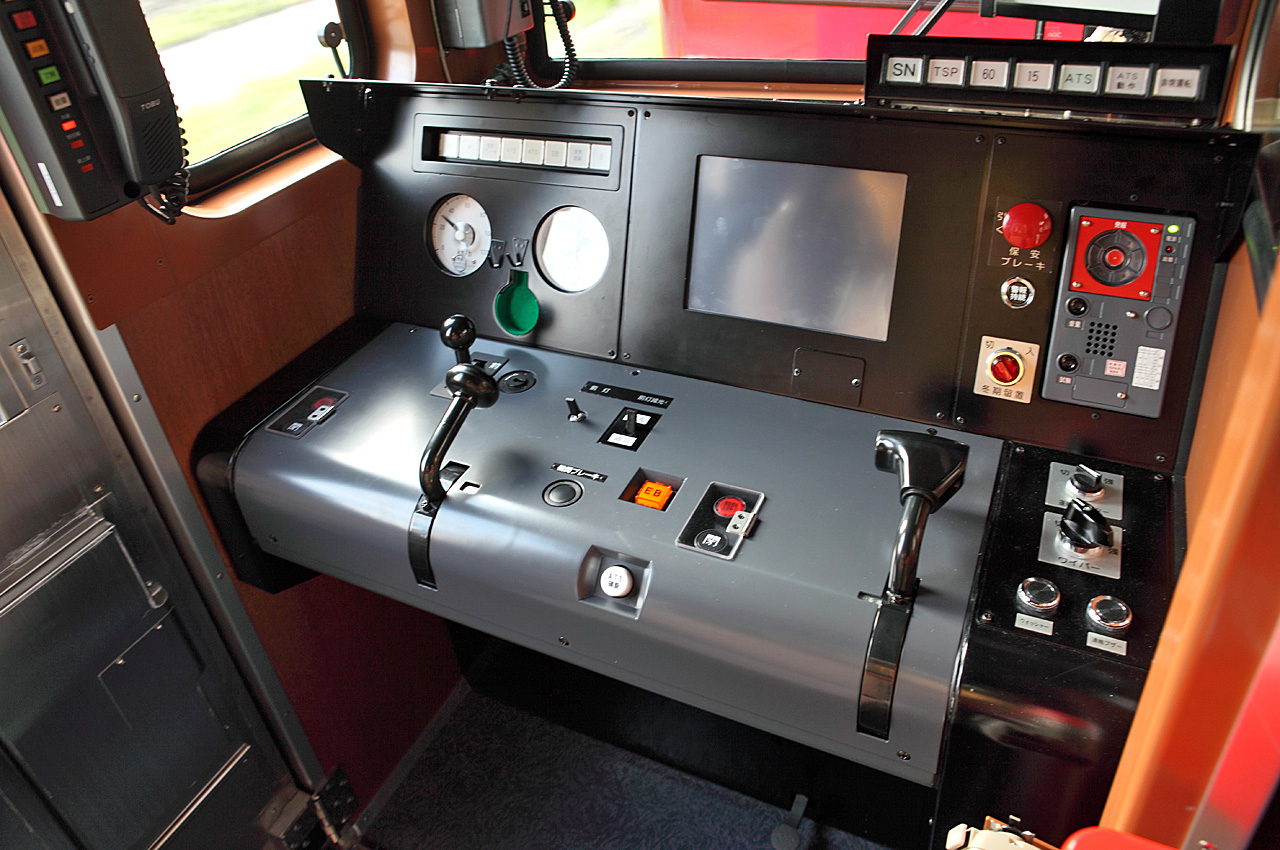 Cockpit of Aizu Railway AT-700 series DMU